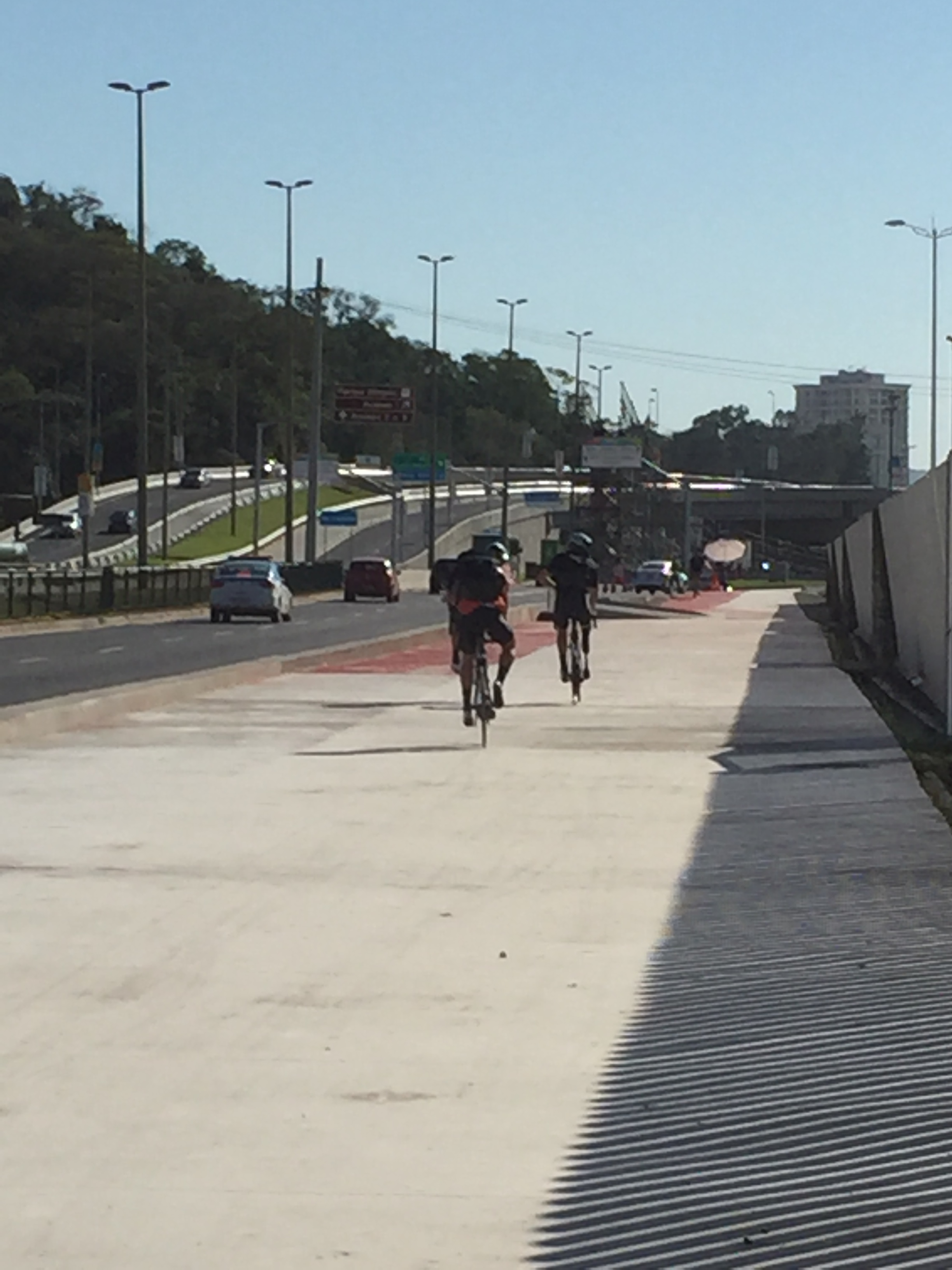 A picture from outside the official area at the Paralympic Games. Gives an idea of the level of preparedness, etc.